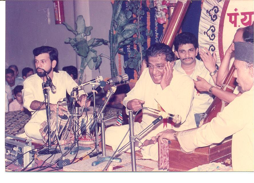 Borkarji accompanying Chota Gandharva